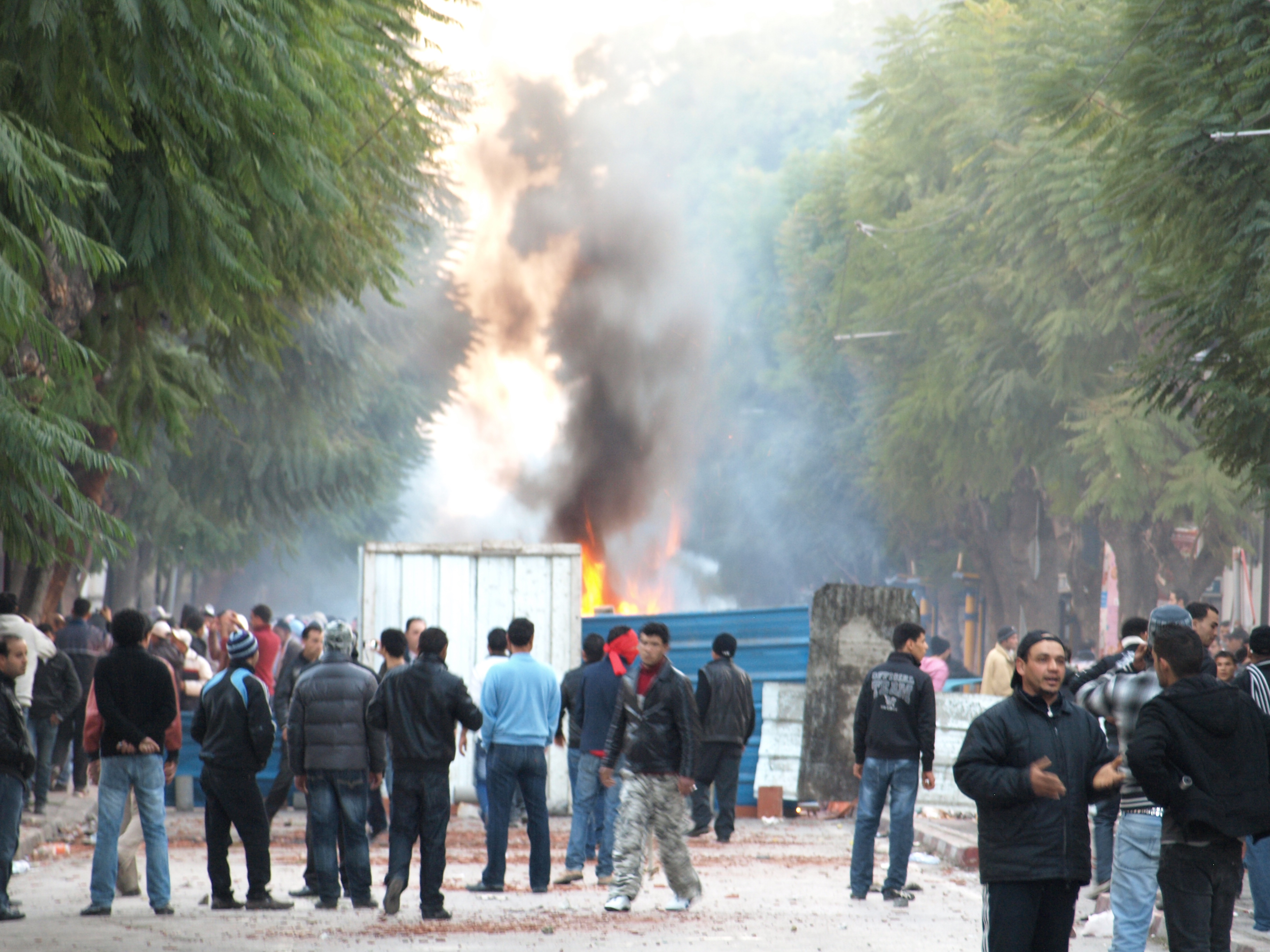 Barricades during the Jasmine Revolution in Tunisia